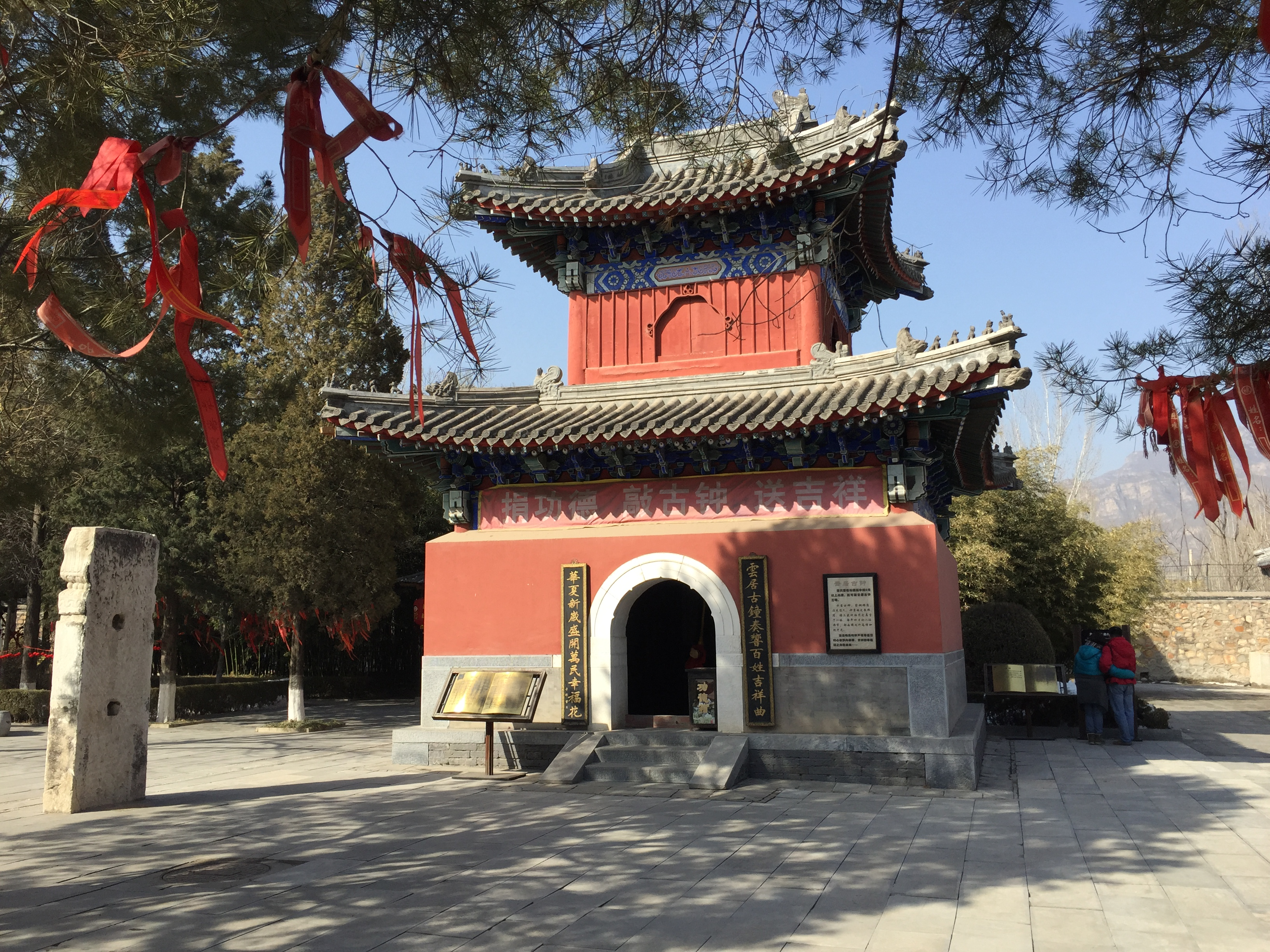 Pay to strike.